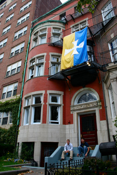 Alpha Theta chapter of Sigma Chi at 532 Beacon St. in Boston, Massachusetts